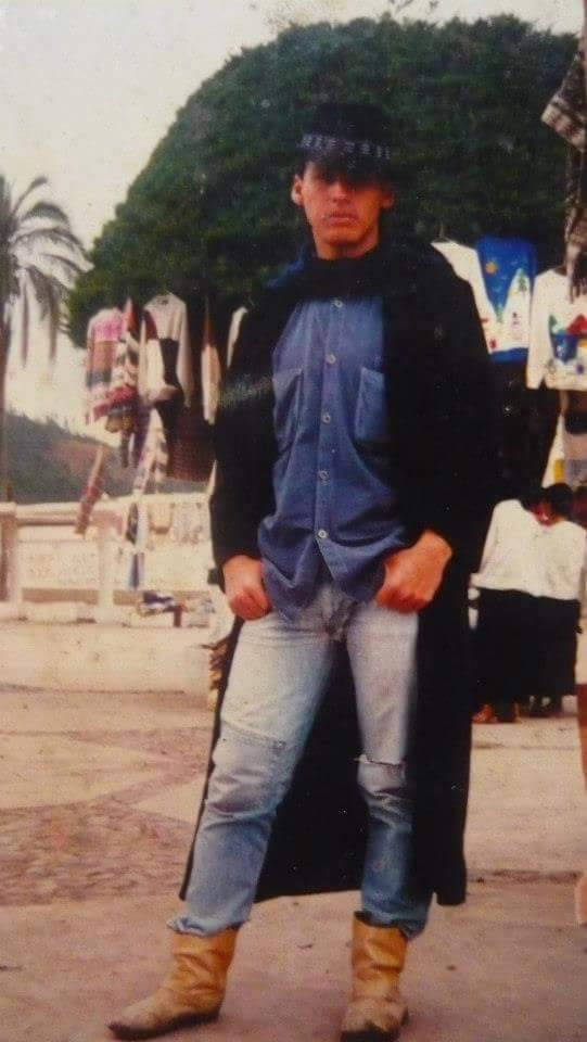 Humberto Peña Taylor Colombian Activist